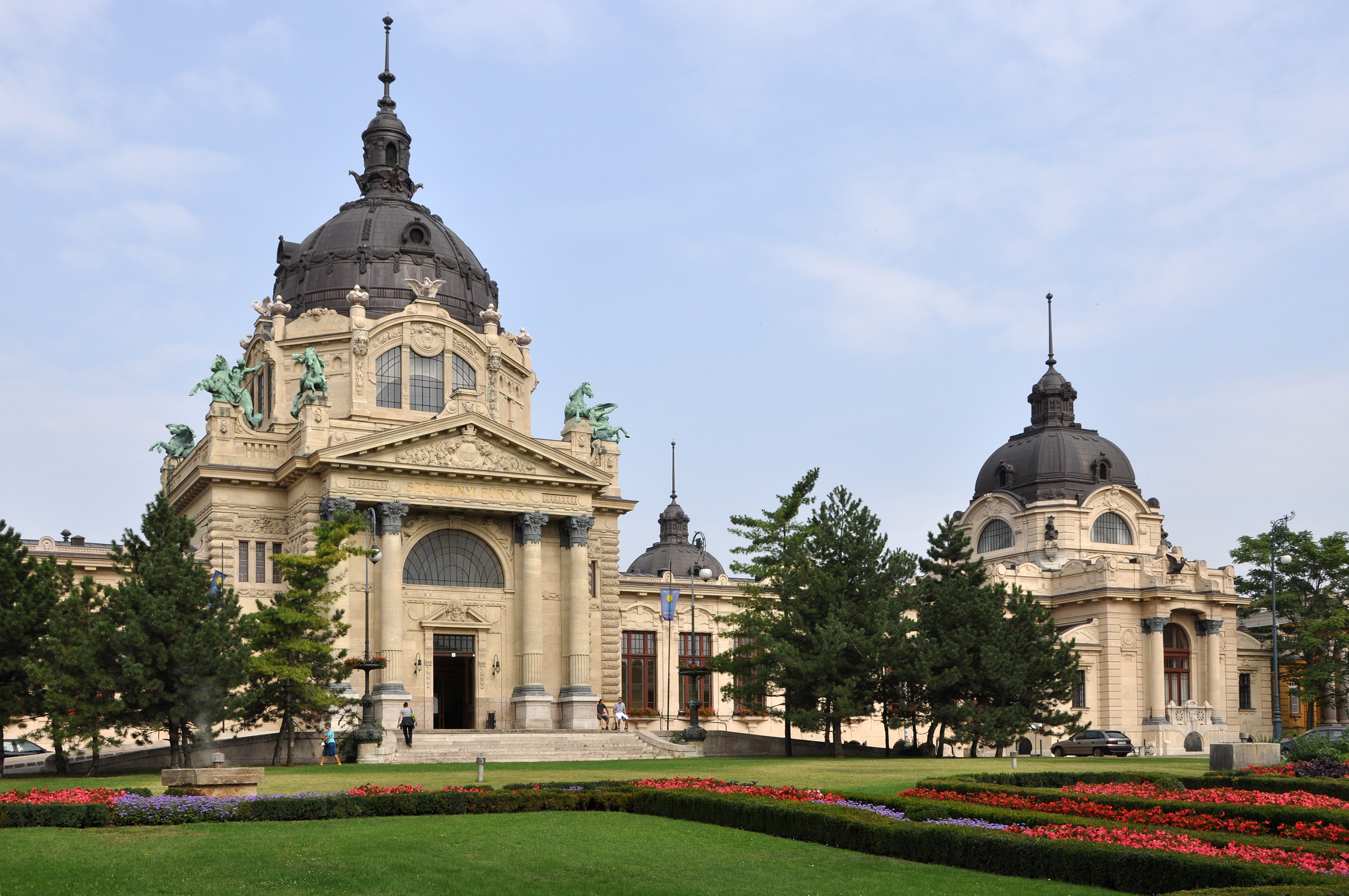 Budapest (Hungary): Széchenyi thermal baths, main building